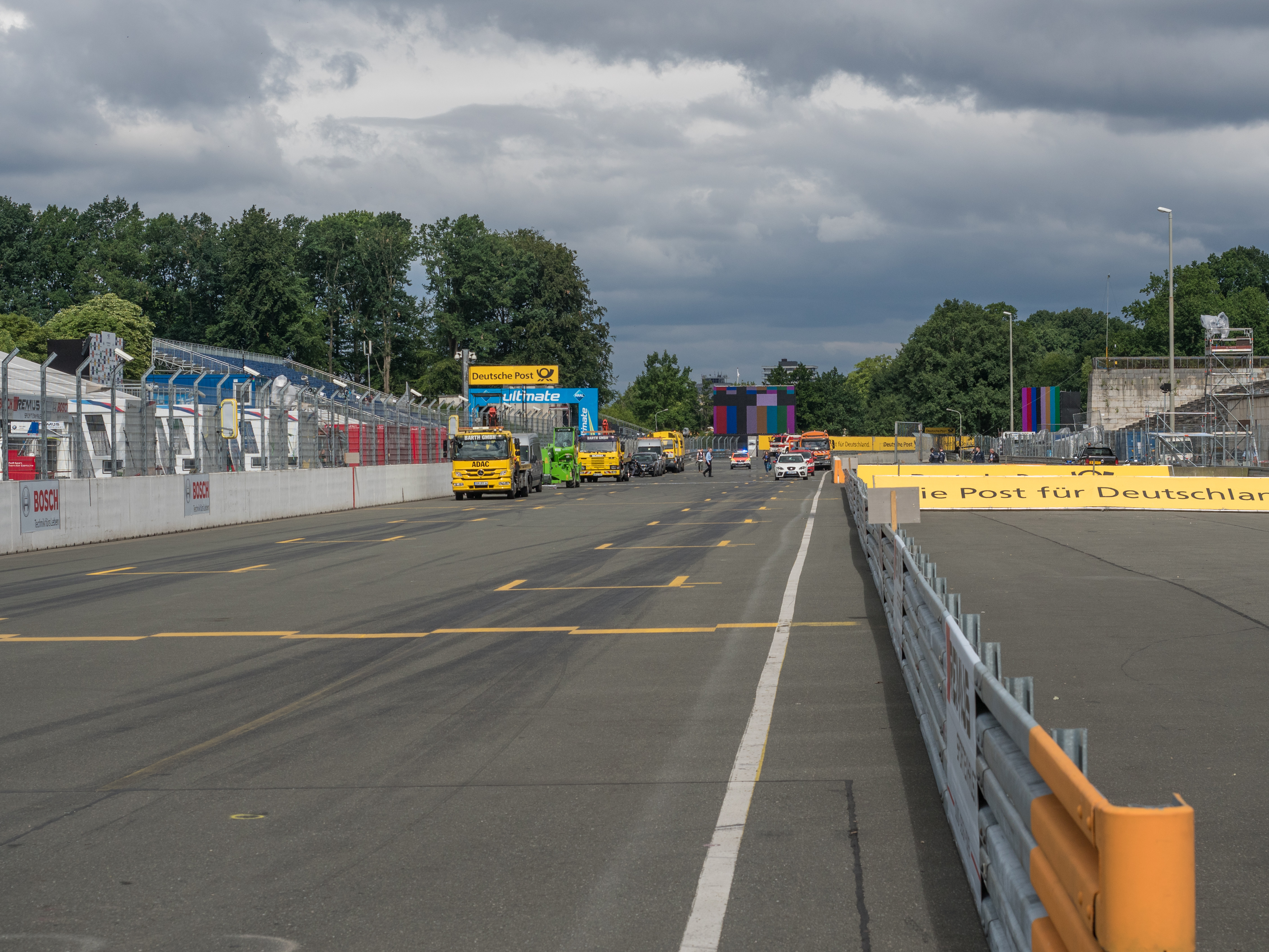 Norisring during racing event.